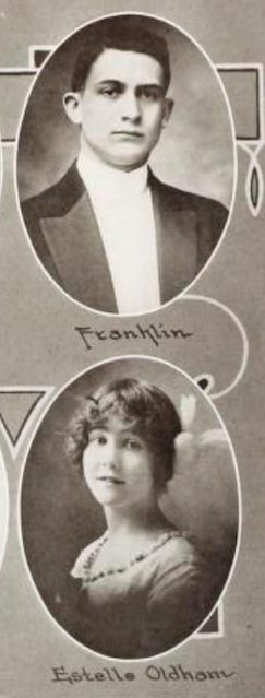 Cornell Franklin and Estelle Oldham at the University of Mississippi